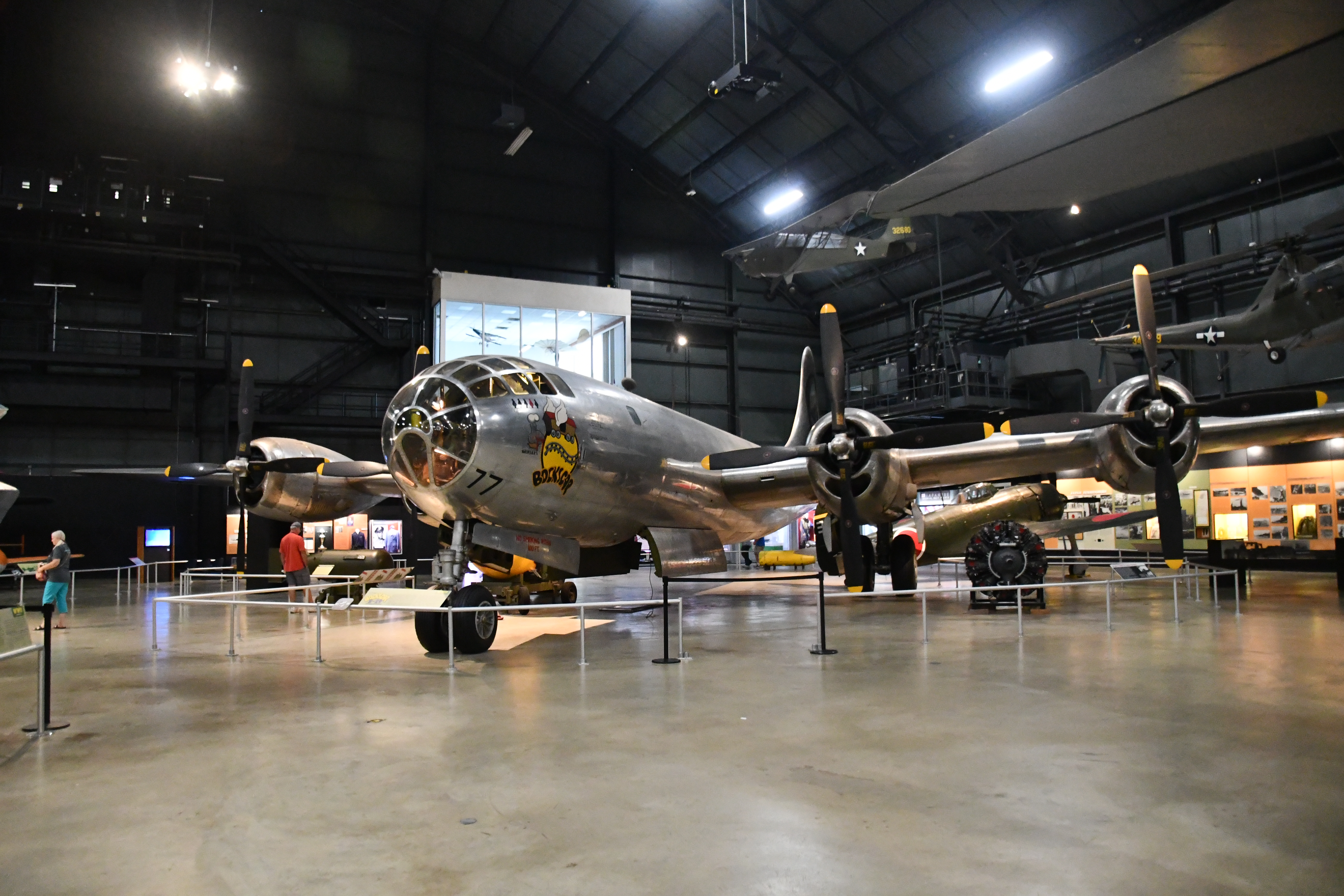 B-29 Bockscar at the National Museum of the USAF, Dayton, OH